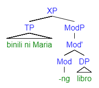 Simplified syntax tree adapted from Scontras (2012) example 14a, made with